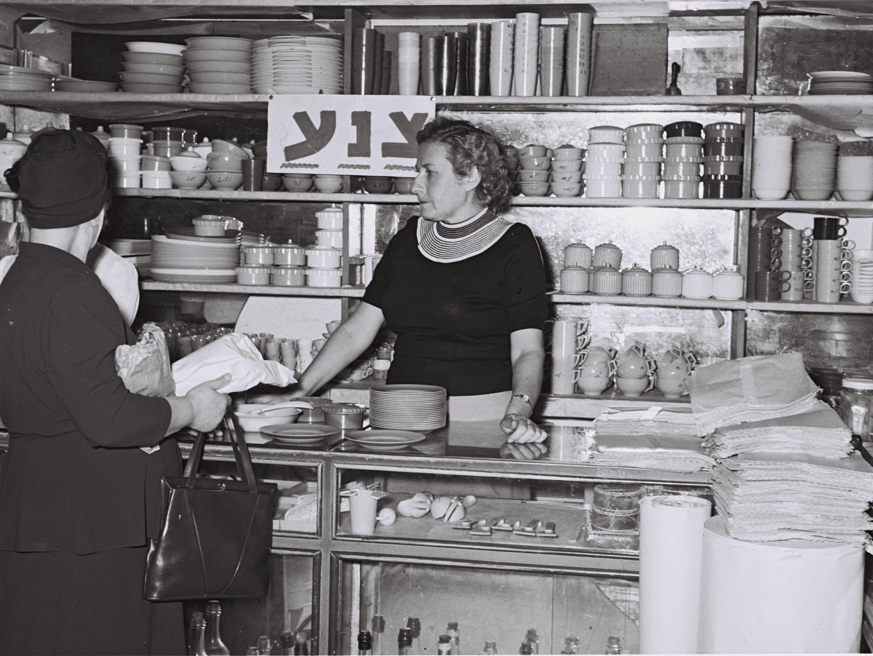 "TZENAH" (UTILITY) READS THE SIGN, INDICATING THE PLASTIC WARE DISPLAYED ON THESE SHELVES. TEL AVIV